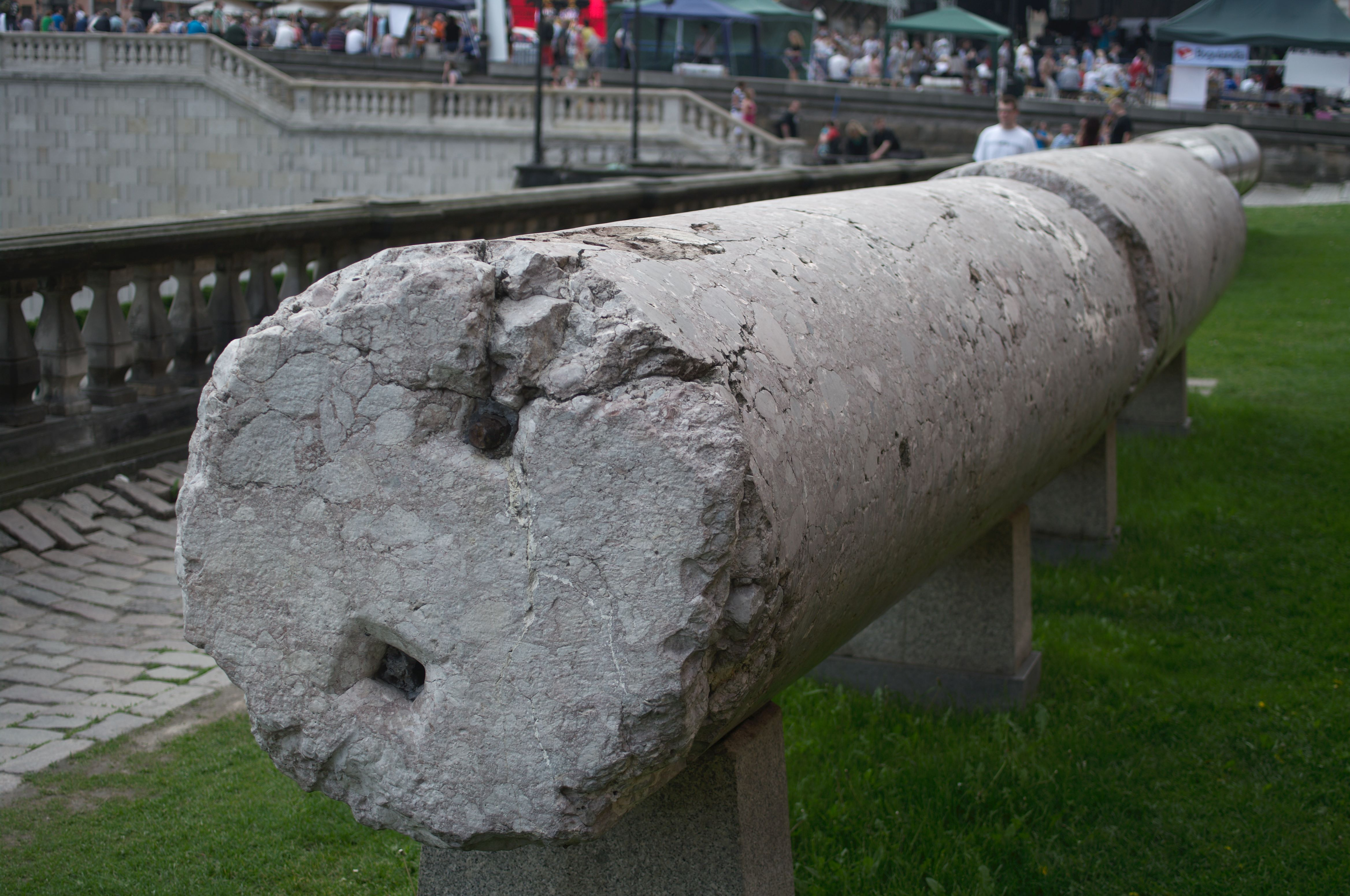 Interior Royal Castle in Warsaw.